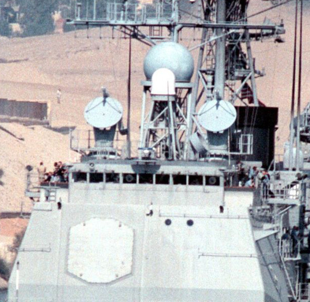 USS Normandy Radar systems